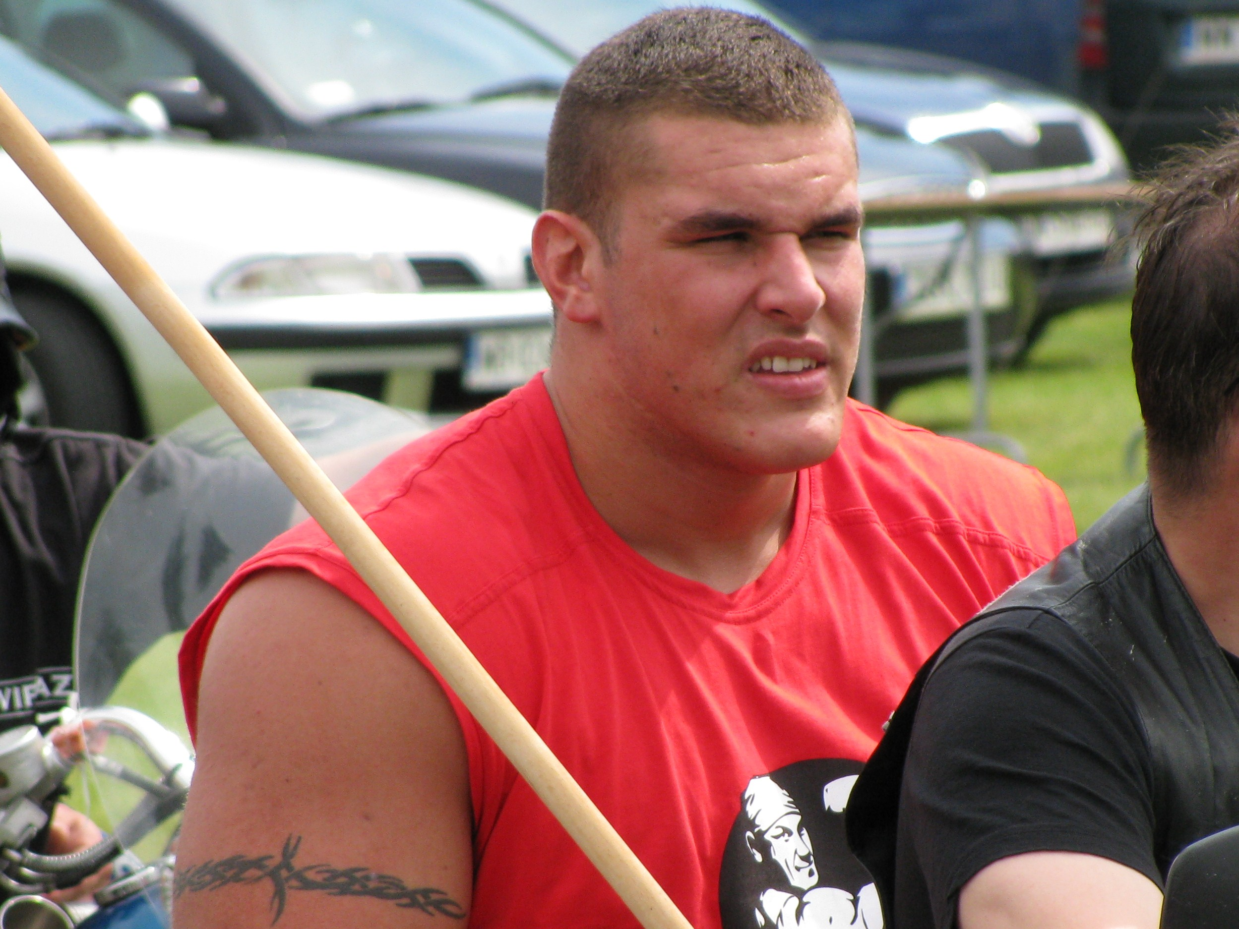 Mateusz Baron - a strength athlete from Poland